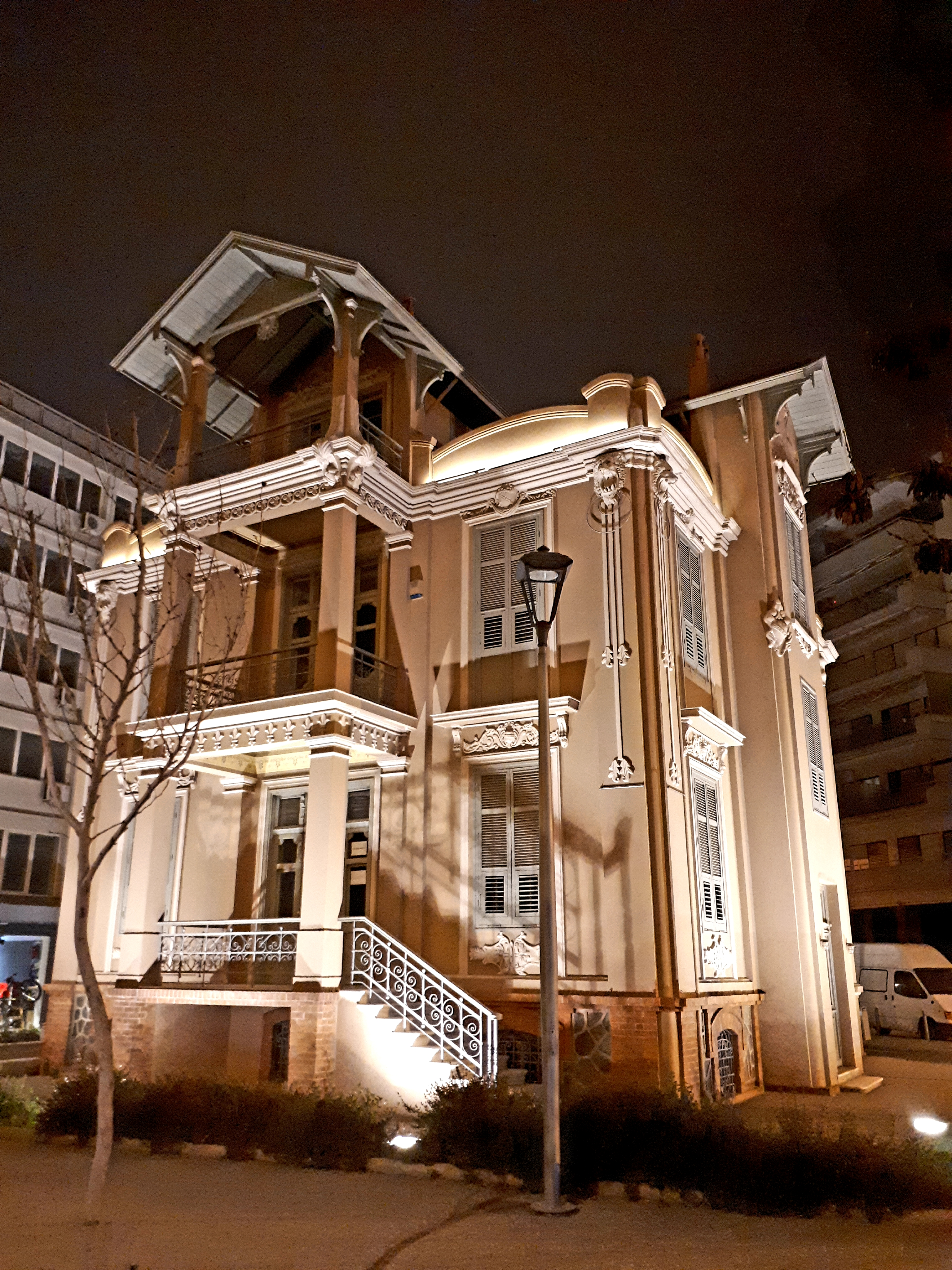 Villa Petridi, cultural centre, Thessaloniki